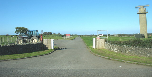 Gate to RAF Mona